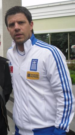 Fyssas as member of staff Greece National Football Team during EURO 2012.